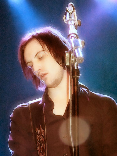 Paul Wilson playing in Vega, Copenhagen on 9 October 2006